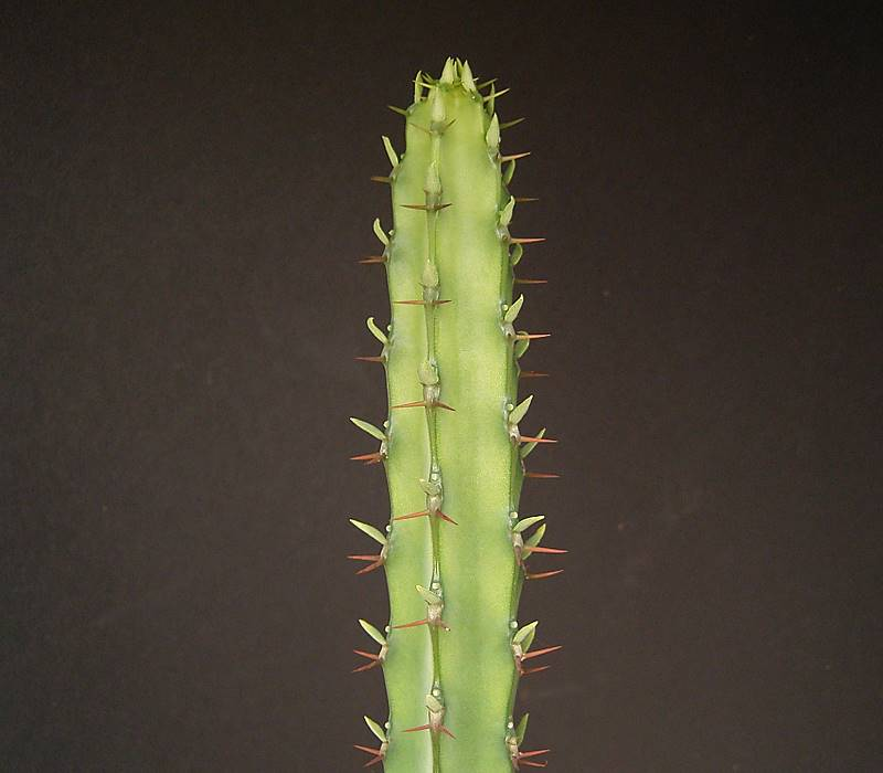 Description: Euphorbia vulcanorum Source: self-made Date: created 22. Oct. 2005 Author: Frank Vincentz Permission: GFDL (self made) Other versions of this file: available on request